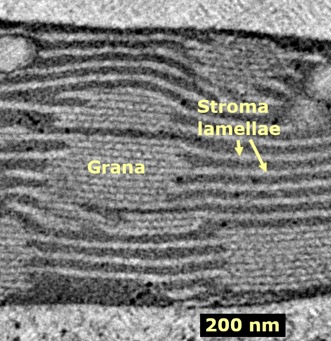 10-nm-thick STEM tomographic slice from a lettuce chloroplast. Grana stacks are interconnected by unstacked stromal thylakoids, called “stroma lamellae”. Scalebar = 200 nm. See [1].